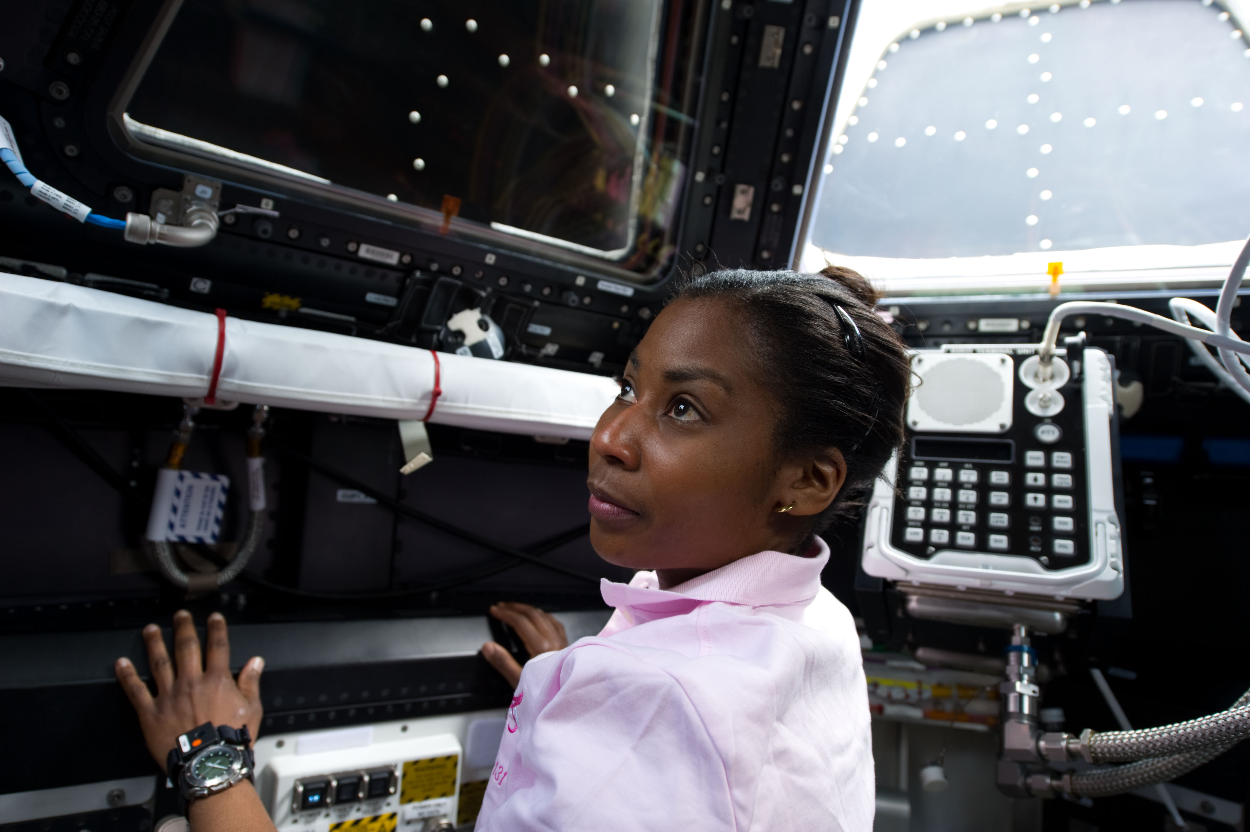 STS-131 astronaut Stephanie Wilson observes the protective shutters of the International Space Station Cupola module